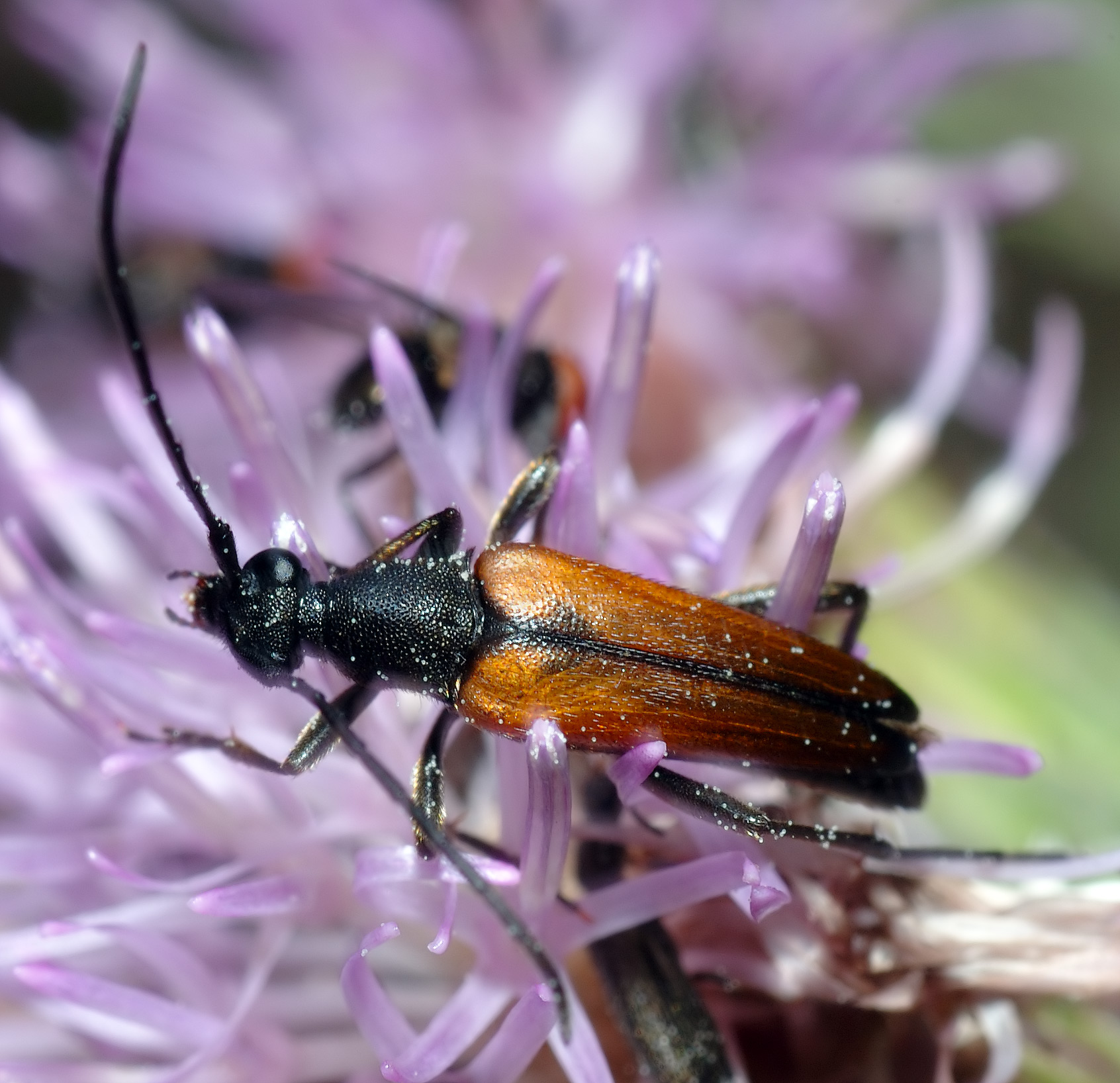 This image shows a 0.37 inch (9.3 mm) long longhorn beetle (Strangalia melanura). Thanks to Der Meister and Olei for identifying this animal.